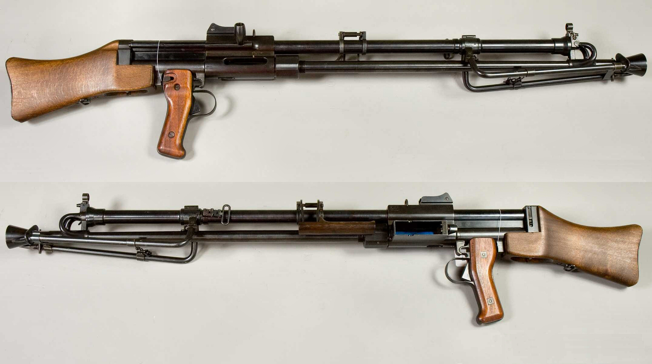 Swedish light machine gun Model 1940. Caliber 6.5x55mm. From the collections of Armémuseum (Swedish Army Museum), Stockholm.